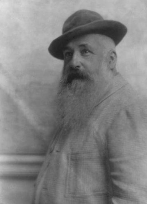 Portrait of Claude Monet by Adolf de Meyer